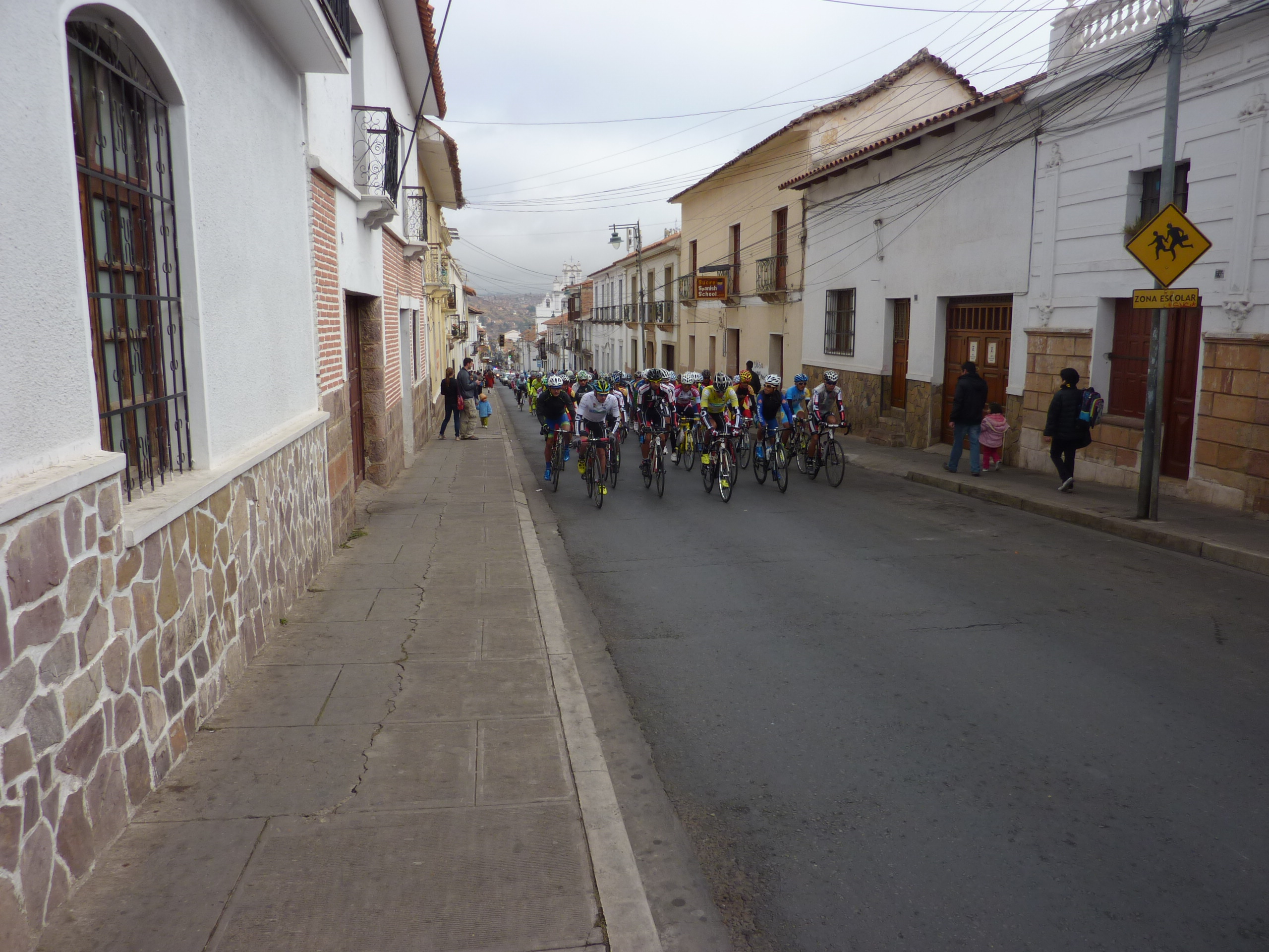 Tour of South Bolivia (cycling) - Stage 2 (14/08/2014) - A few hundredths meter after the departure, still in Sucre (Bolivia)